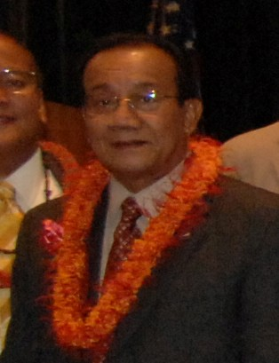 Marshall Islands President Litokwa Tomeing